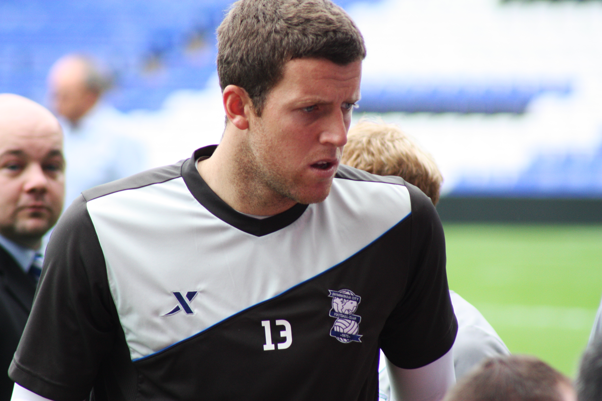 Colin Doyle at Birmingham City open training session at St.Andrews' Stadium.